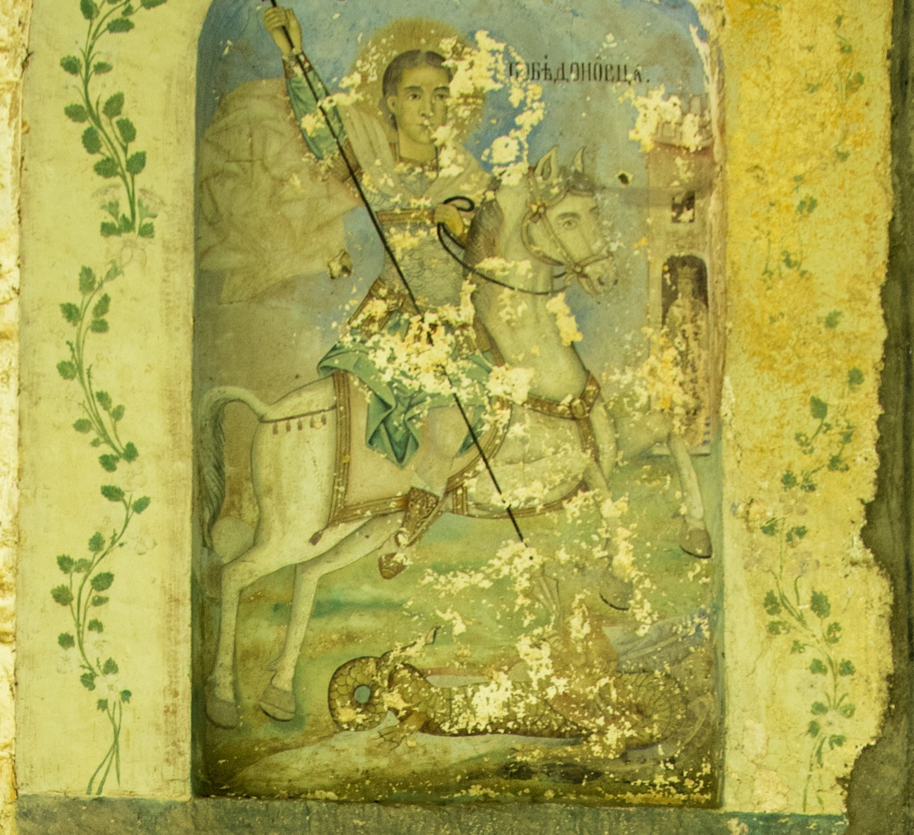 View of the St. George's Church, main church in the village Osoj